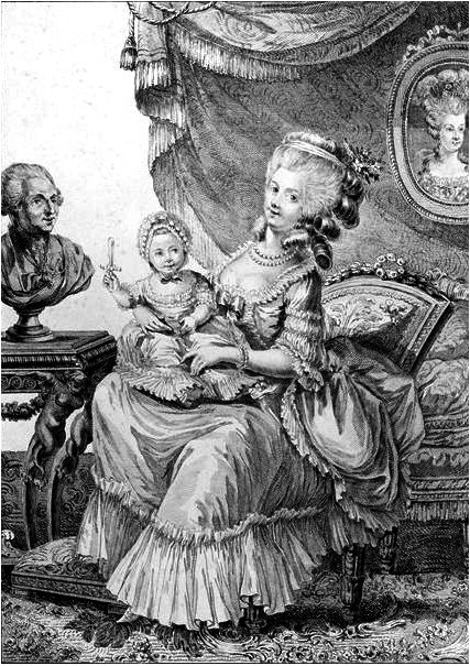 Victoire Armande Josèphe de Rohan, future princesse de Guéméné; governess of Madame Royale, daughter of Louis XVI and Marie Antoinette; Madame royale sits on her lap, c. 1779. A portrait of Queen Marie Antoinette is behind Victoire. The bust on the left may be Victoire's father, the Prince of Soubise.